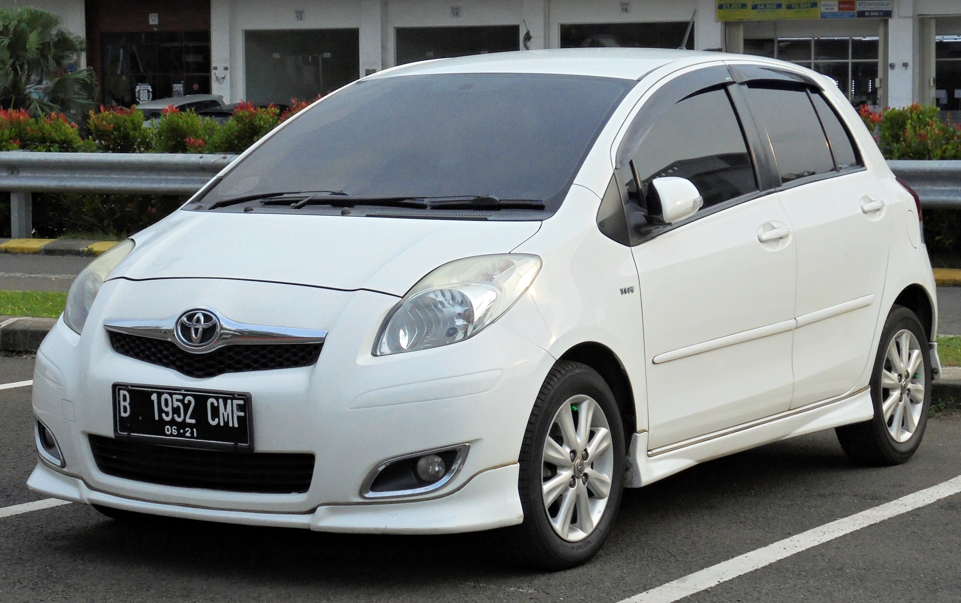 2011 Toyota Yaris 1.5 S Limited hatchback (NCP91R) photographed in South Tangerang, Banten, Indonesia.